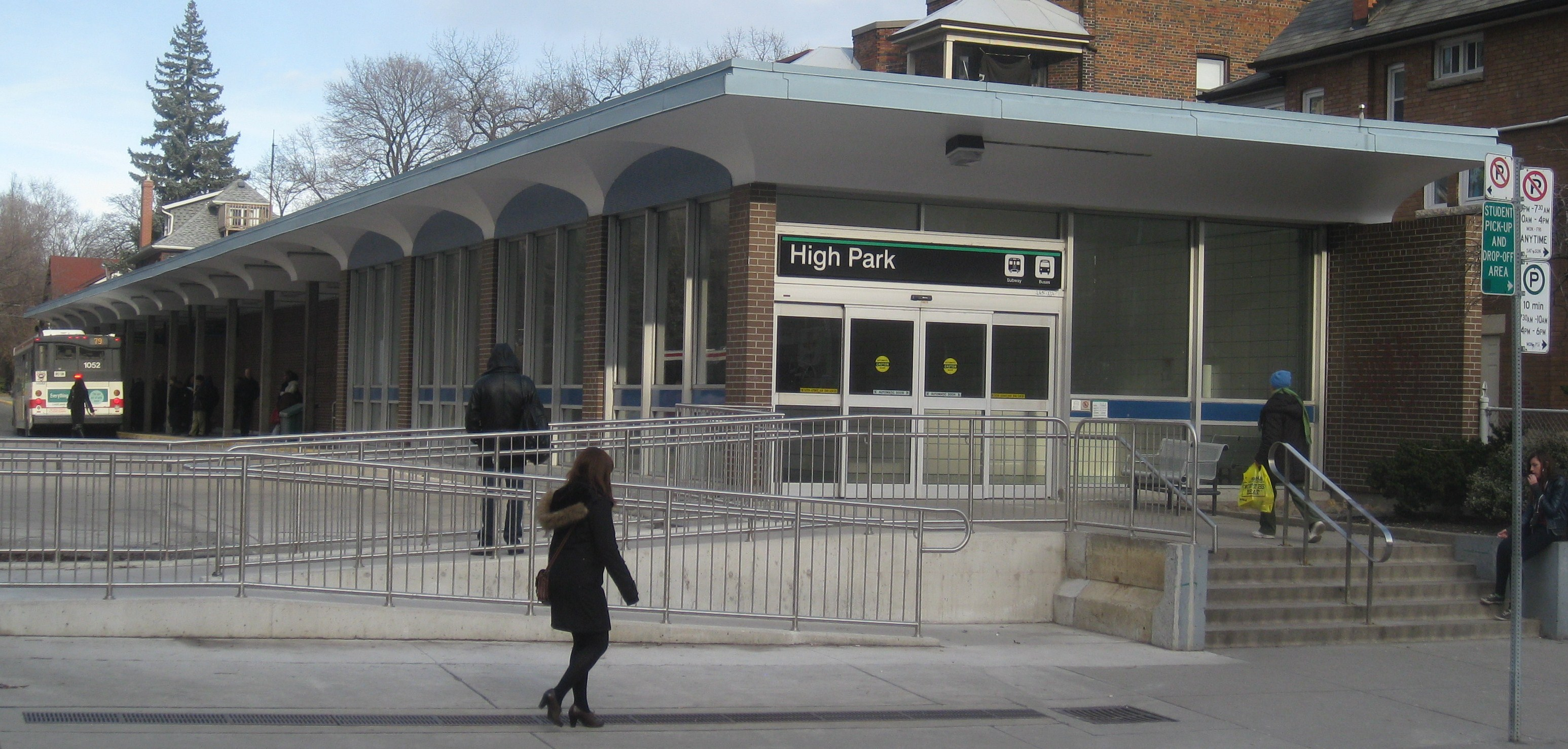 The Toronto Transit Commission's High Park Station in Toronto, Canada. Photographed from the west side of Quebec Avenue.